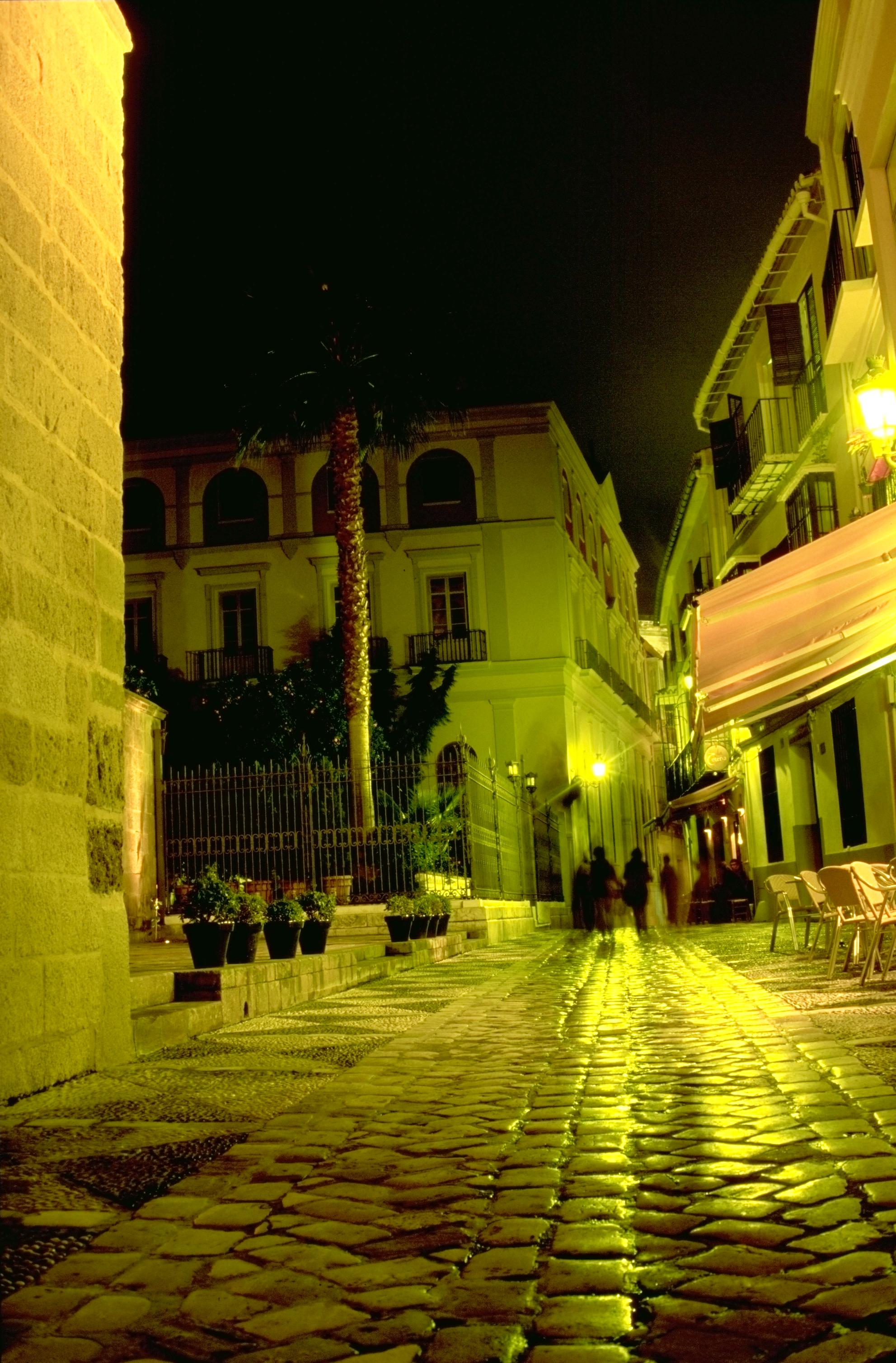 Malaga behind Picasso Museum (Calle San Agustín), Spain Photo was taken using the following technique: Film: Fuji Velvia Lens: 2.8/28 Filter: none Body: Minolta 9000 Support: simple tripod Image with Information in English Bild mit Informationen auf Deutsch